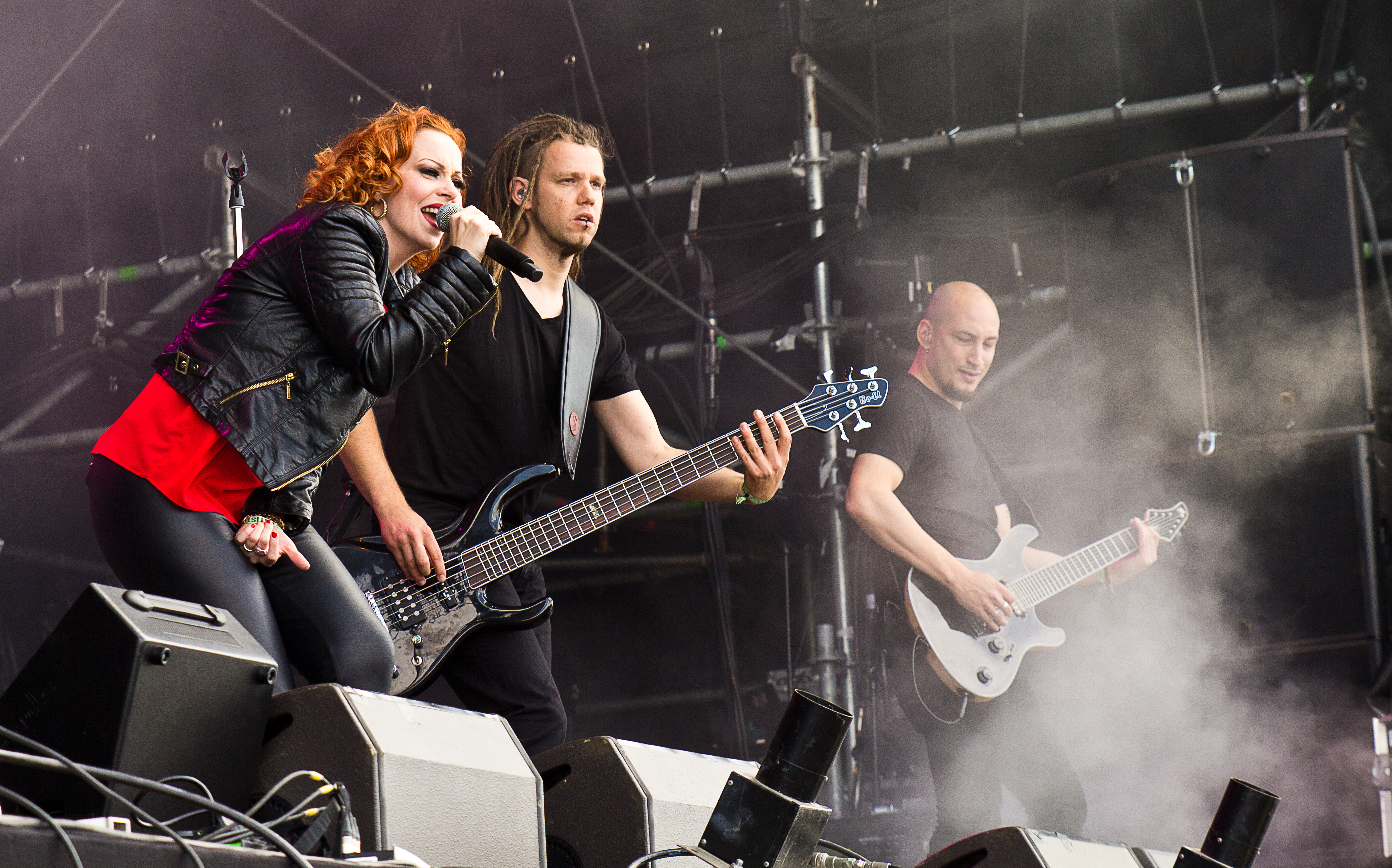 The Dutch progressive metal band The Gentle Storm at the Rockharz Open Air 2015 in Ballenstedt/Germany.